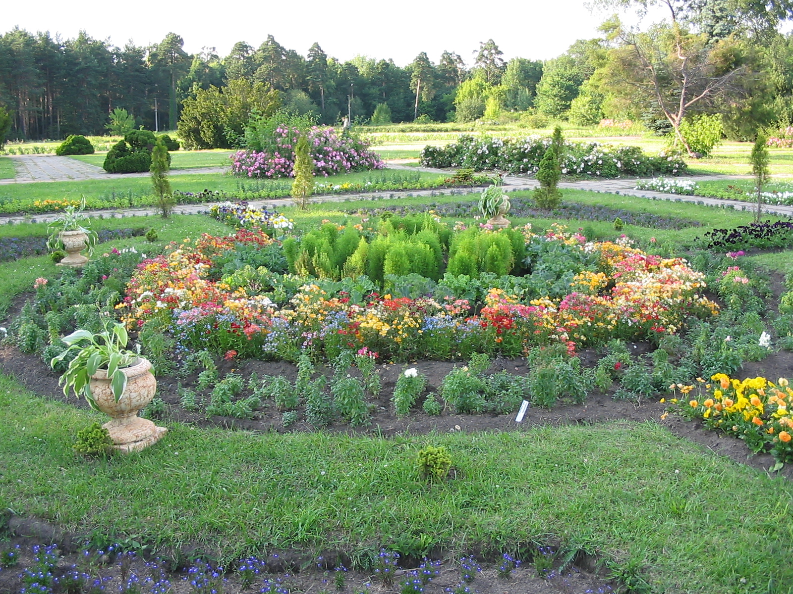 Central botanical garden of Academy of Sciences of Belarus, Minsk, Belarus